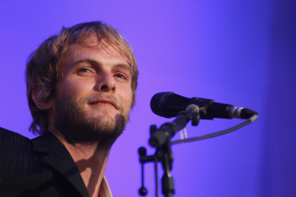 Sportfreunde Stiller at Novarock